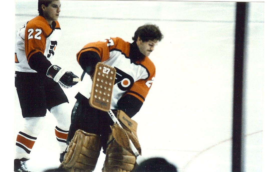 1987 Photo of Philadelphia Flyers goalie, Ron Hextall, on ice.